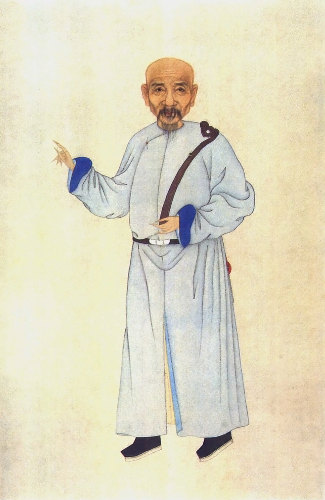 Luo Bingzhang (simplified